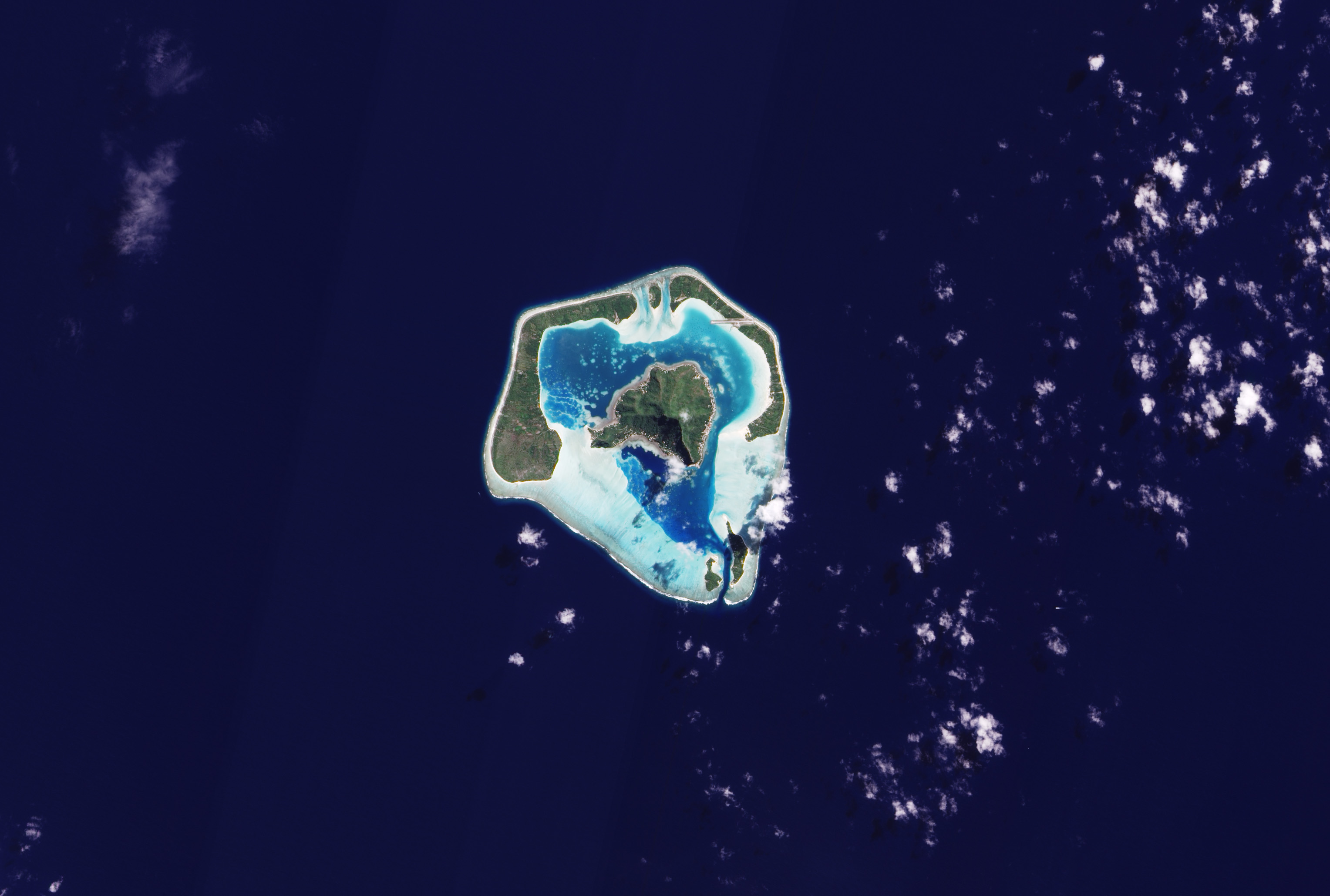 Maupiti consists of a central island poking 213 meters above the sea surface, framed by low-profile serpentine islands and coral reefs that enclose a lagoon. The water inside the lagoon glows electric blue, surrounded by much paler blues of fringing coral reefs. Waves breaking on Maupiti’s south-western shores appear brilliant white. Above the water line, forests carpet the islands. Only on the central island does the land rise high enough to cast a discernible shadow, and because this island sits in the Southern Hemisphere, the shadow falls to the south at this time of year. On the north-eastern fringing island, the landing strip of a tiny airport cuts a long east-west line across vegetated land and coral reef.